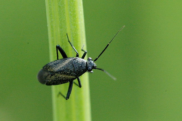 Picture taken in Commanster, Belgian High Ardennes . Species: Atractotomus magnicornis